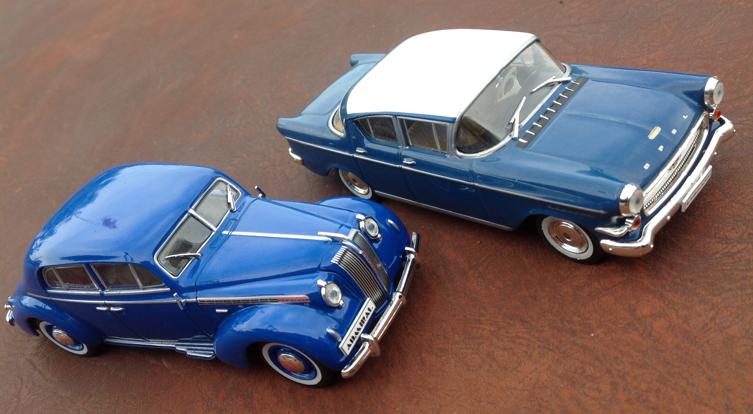 1:43 scale Models in the "Opel Collection" Partworks. 1937-39 Admiral & 1958-59 Kapitän